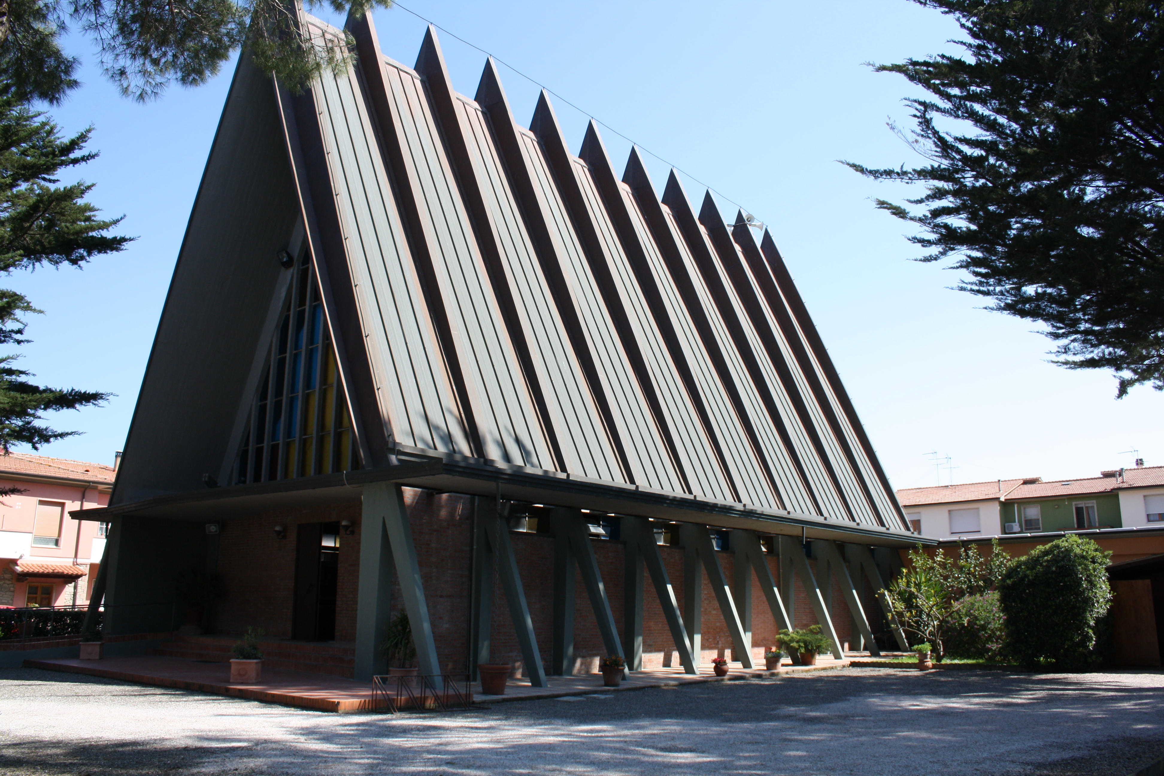 Italy, Tuscany, Bibbona, La California, Nostra Signora di Fatima.The side view and the sloping roof.